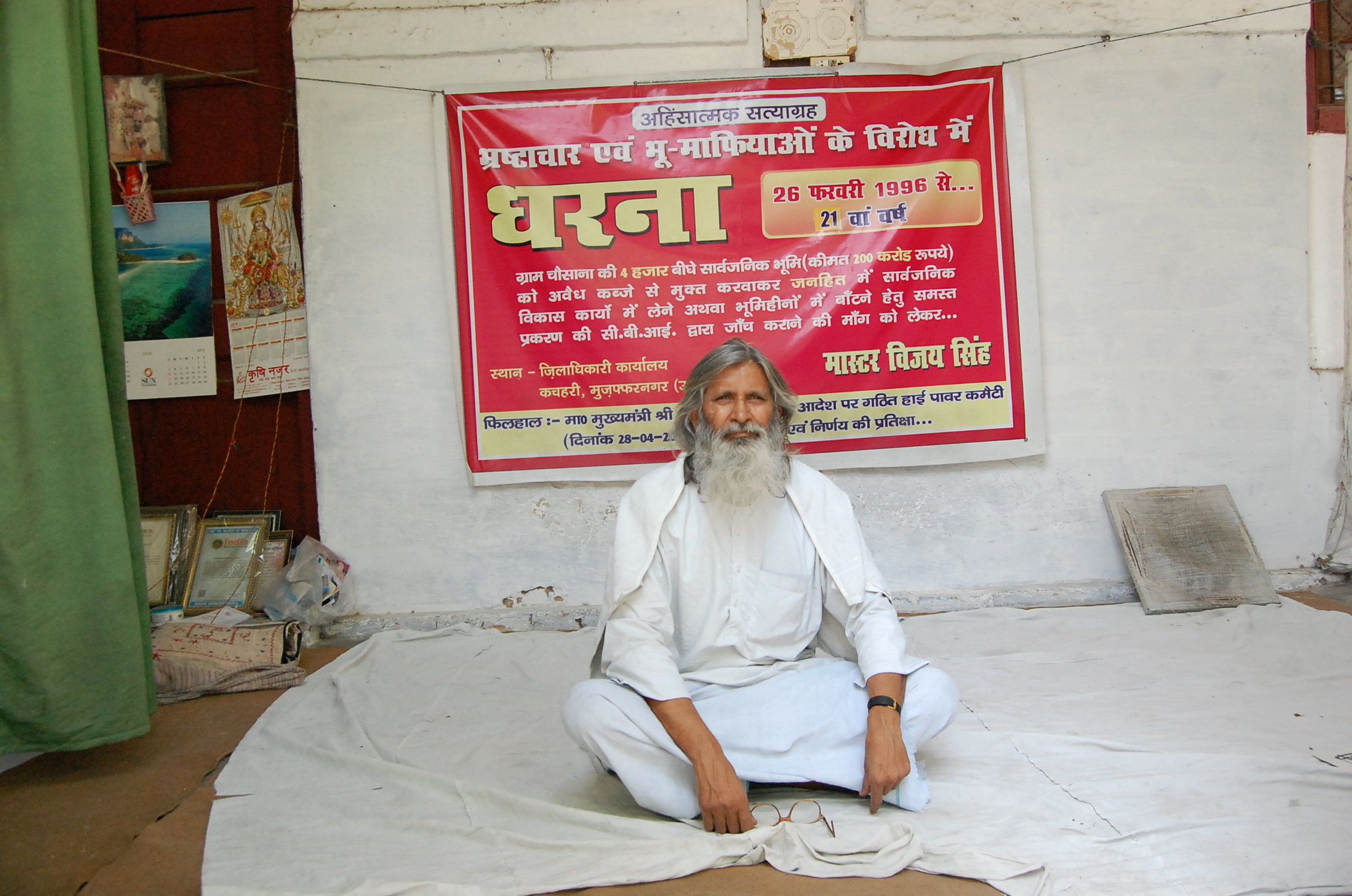 DHARNA IN 21 YEAR